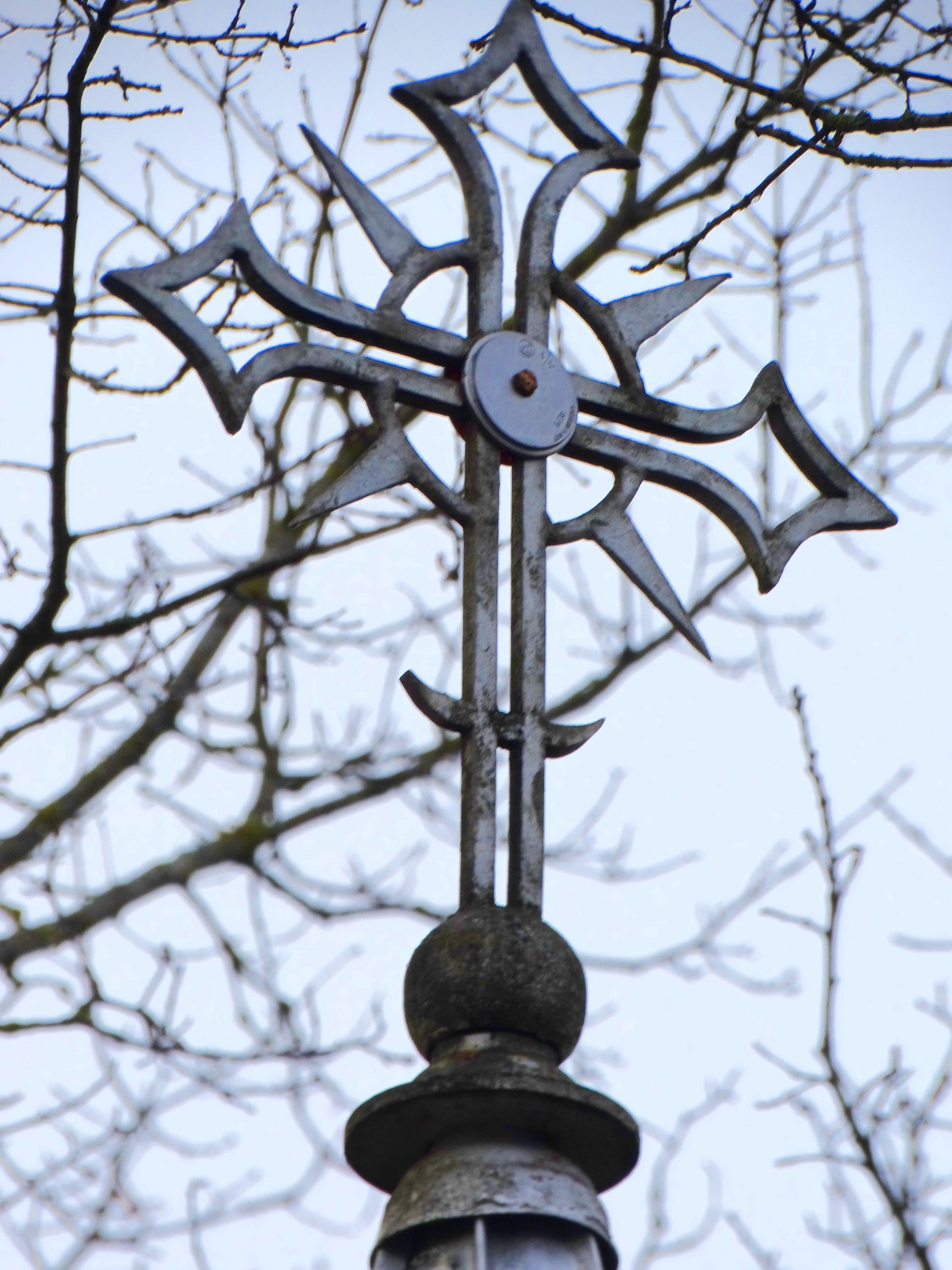 Narvydžiai chapel, Skuodas District, Lithuania